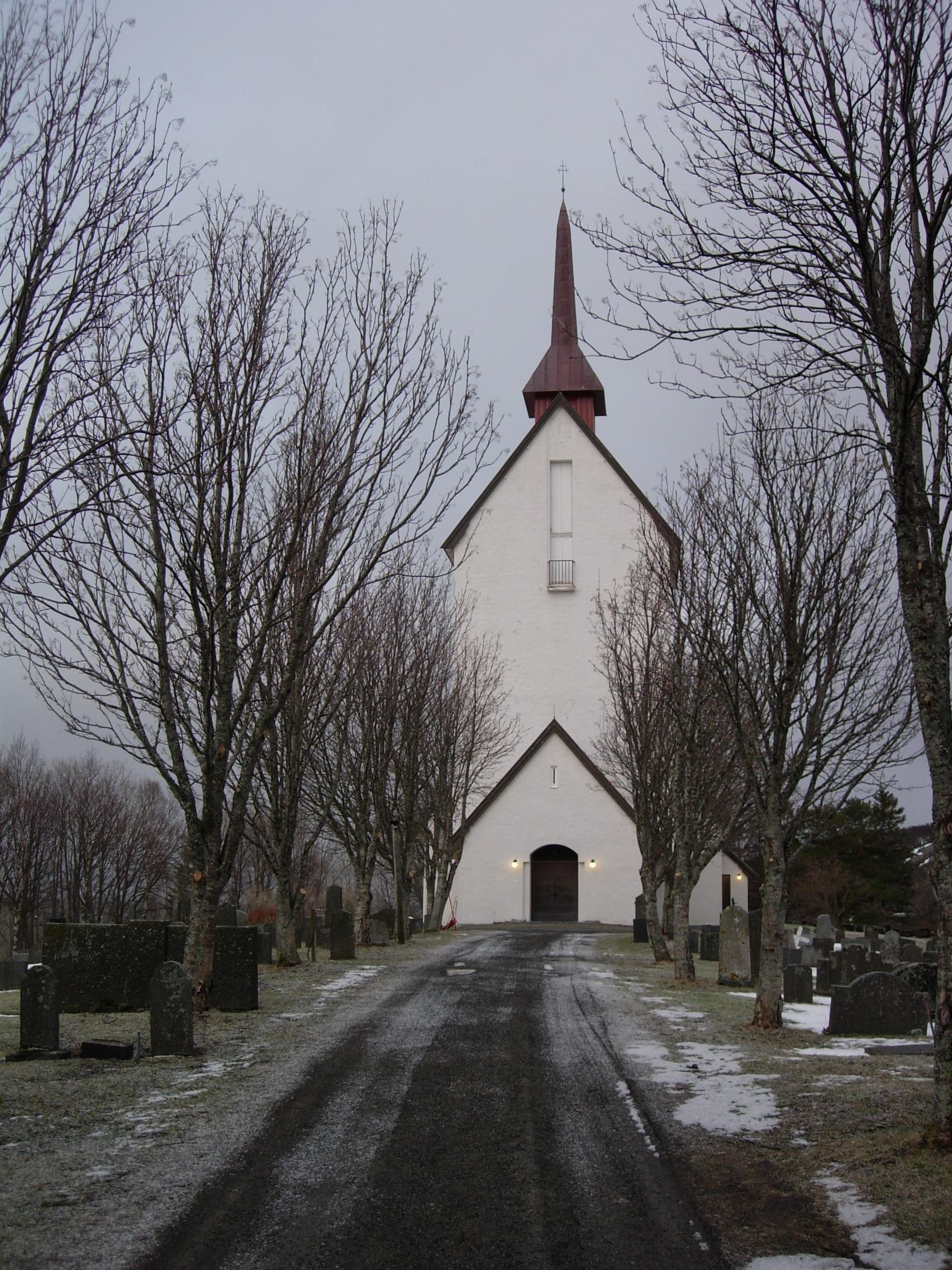 Skjerstad church, front.